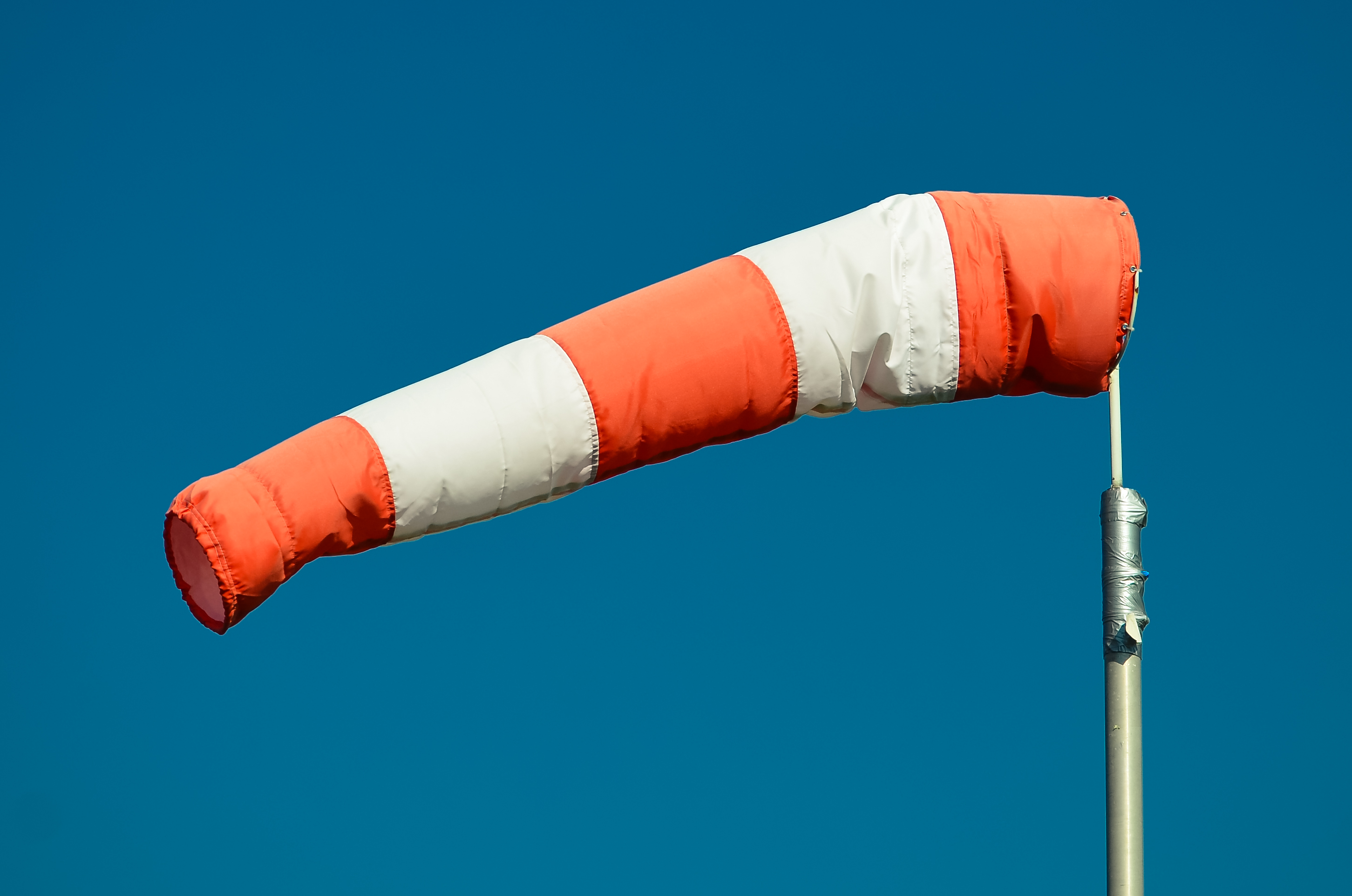 Windsock at Hodenhagen Aerodrome (Aero-Club Hodenhagen e.V.), Germany